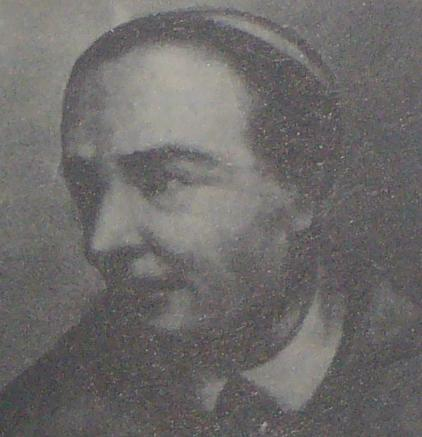 Francesc Robuster i Sala (Igualada, 1544 - Vic, 1607) was a Catalan bishop and politician. bishop of Elna (1589-98) and bishop of Vic (1598-1607).